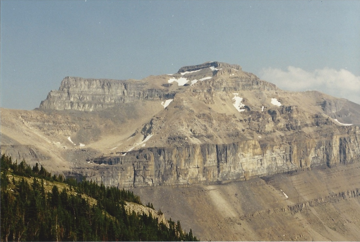 Redoubt Mountain in Banff National Park, Alberta, Canada Viewpoint taken from Hidden Lake